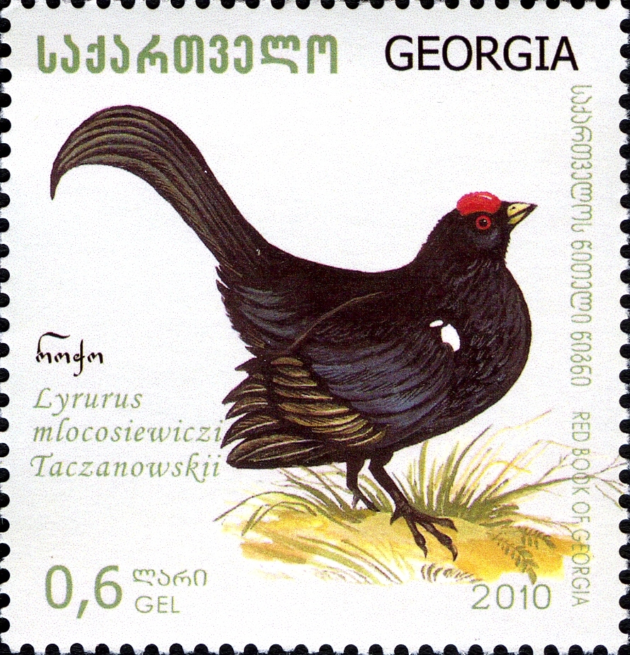 Stamps of Georgia, 2010